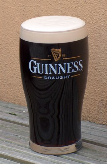 Guinness for strenght